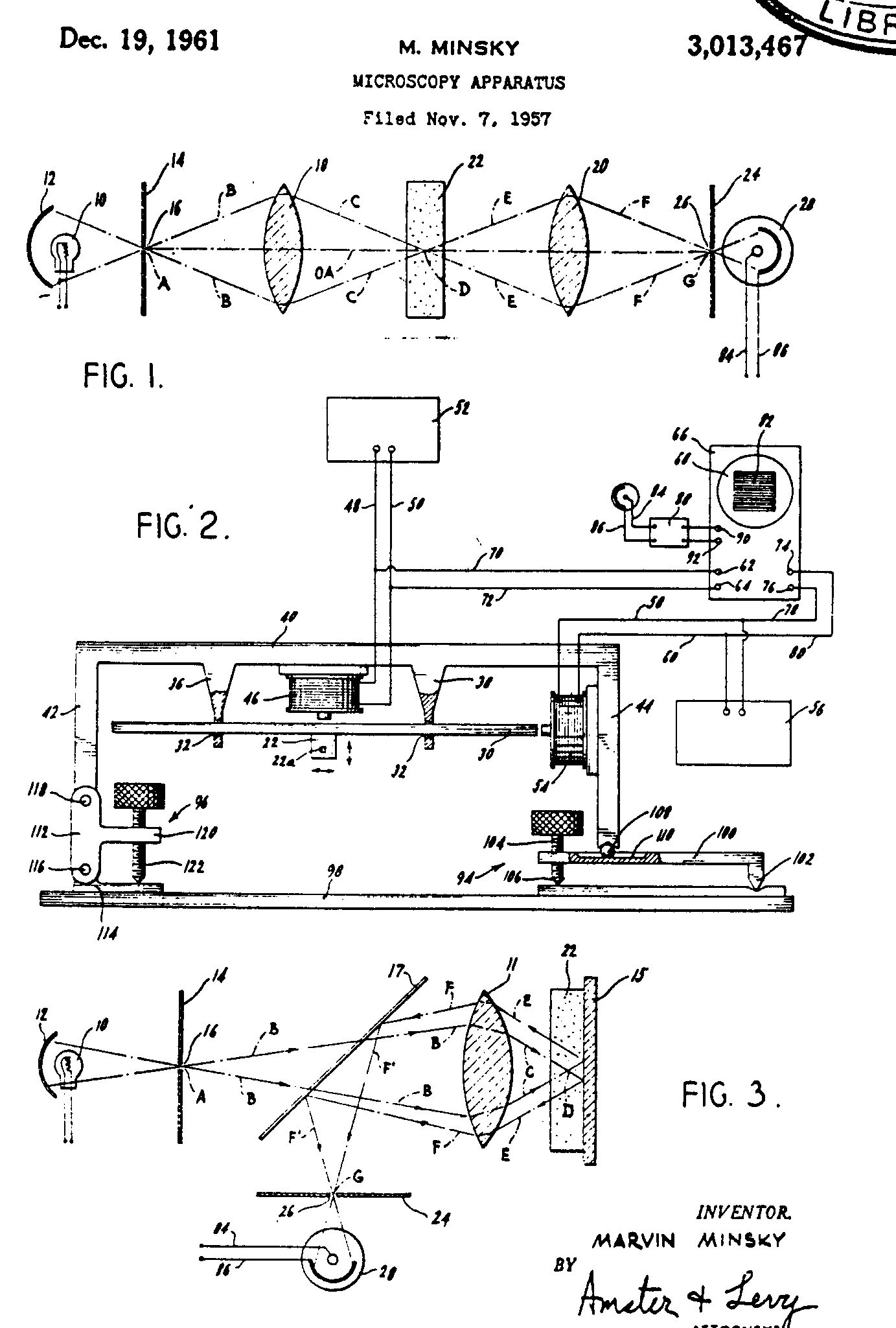 Figure 2. First page of US Patent 3.013.467 of Marvin Minsky on a confocal microscope.